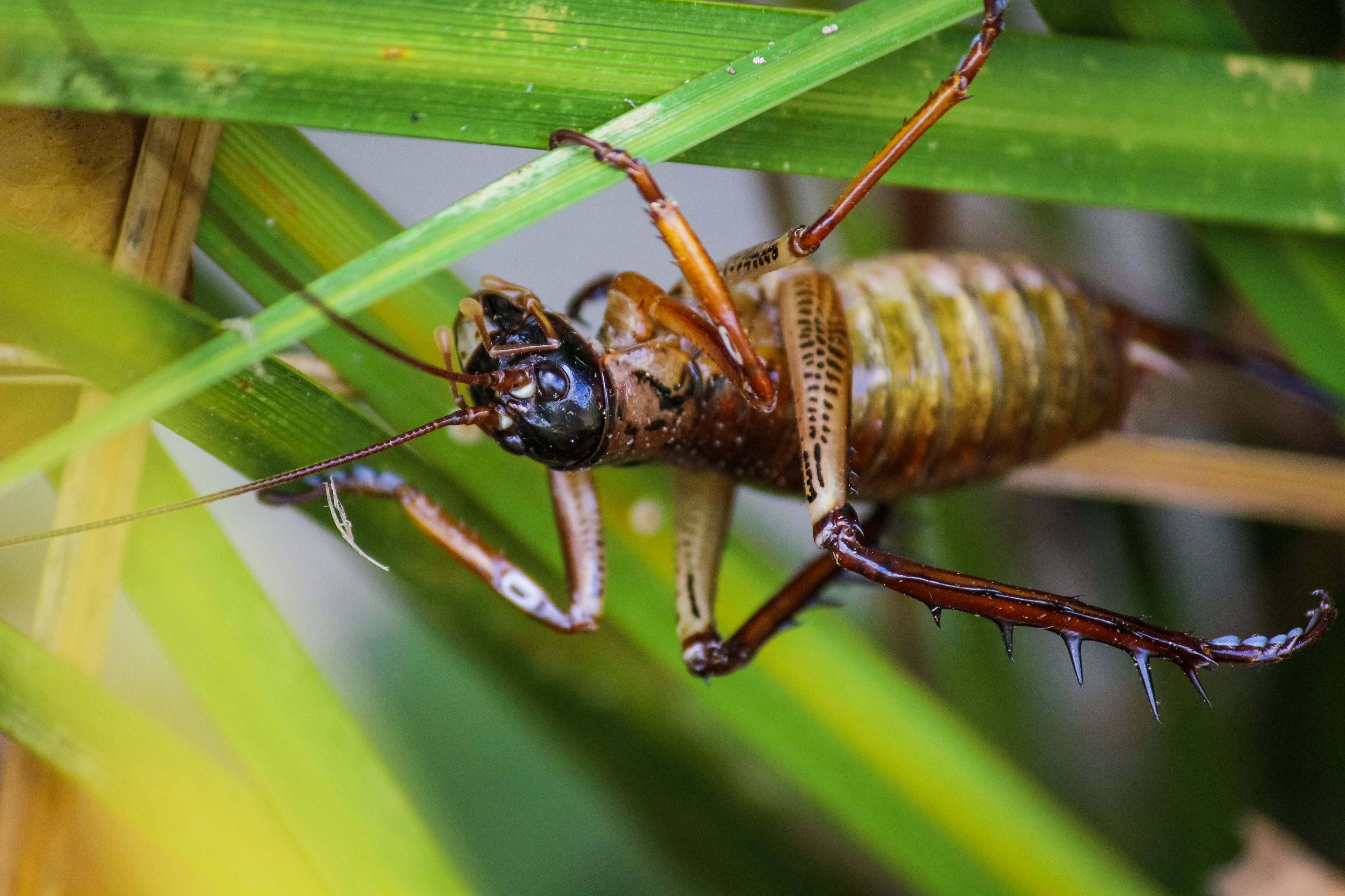 An Auckland tree weta.